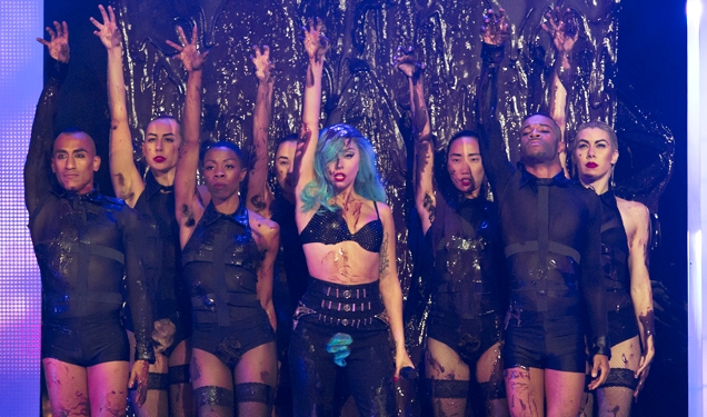 Lady Gaga performing Born This Way at 2011 Much Music Video Awards